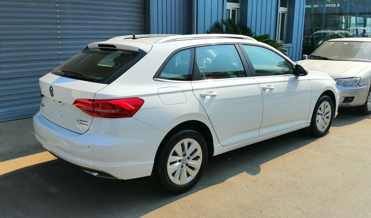 Volkswagen Gran Lavida II photographed in Chongqing, China.